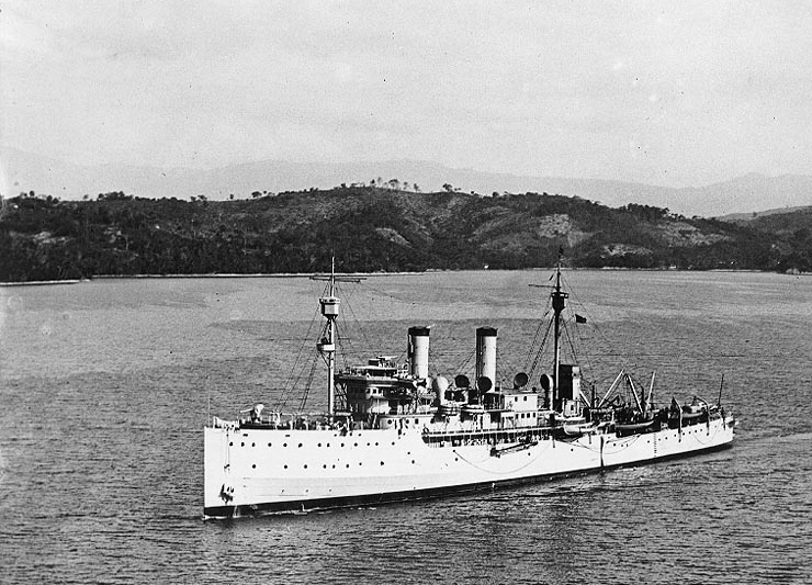 The U.S. Navy minelayer USS Shawmut (CM-4) operating in the Caribbean in April 1924. To avoid verbal confusion with USS Chaumont (AP-5), she was renamed Oglala in January 1928.